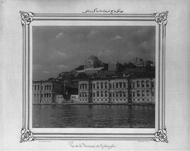 Şehzade Cihangir Mosque between 1880 and 1893